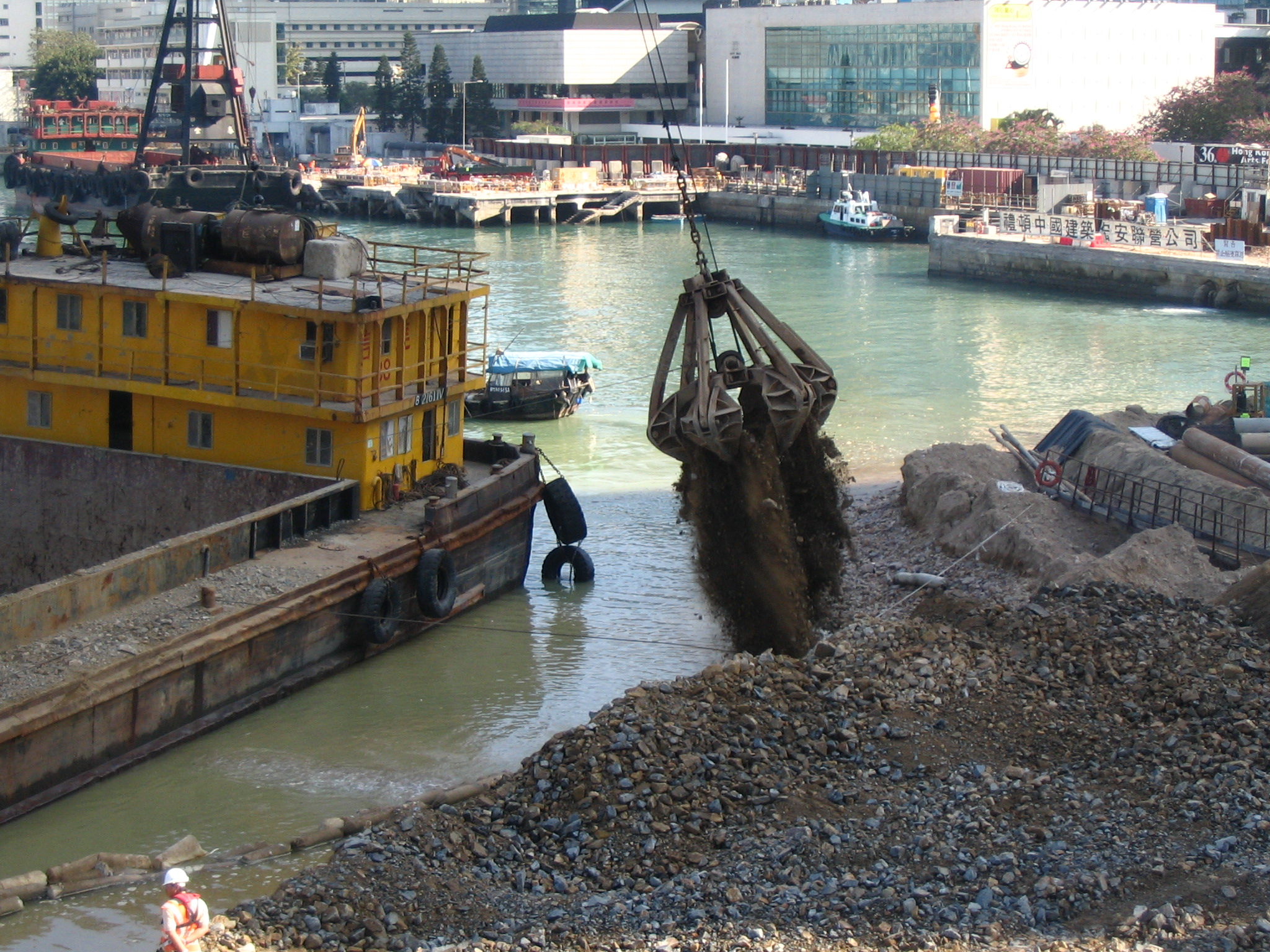 Photo of Central Reclamation Phase 3